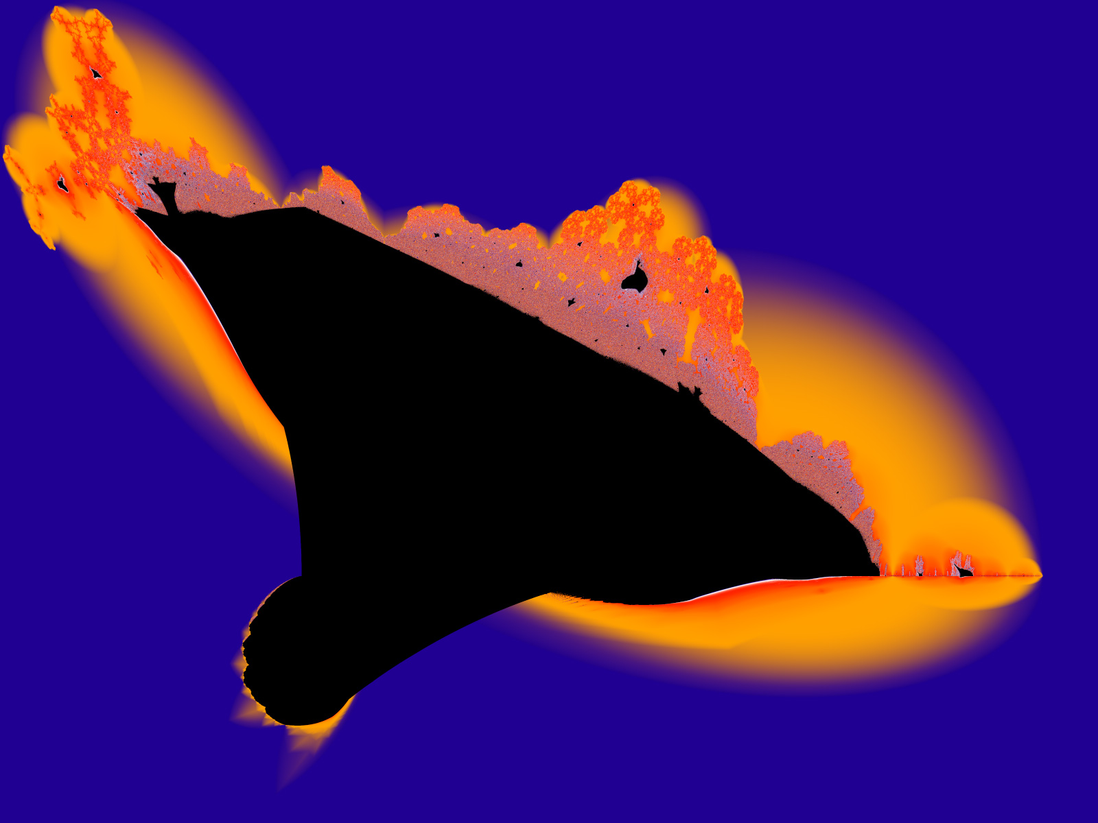 A Burning Ship fractal rendered with an outside coloring algorithm denoting orbits (so called "orbit traps") rendered in Ultra Fractal. Image spans coordinates -1.16̅+1.75i to 2.16̅-0.75i.